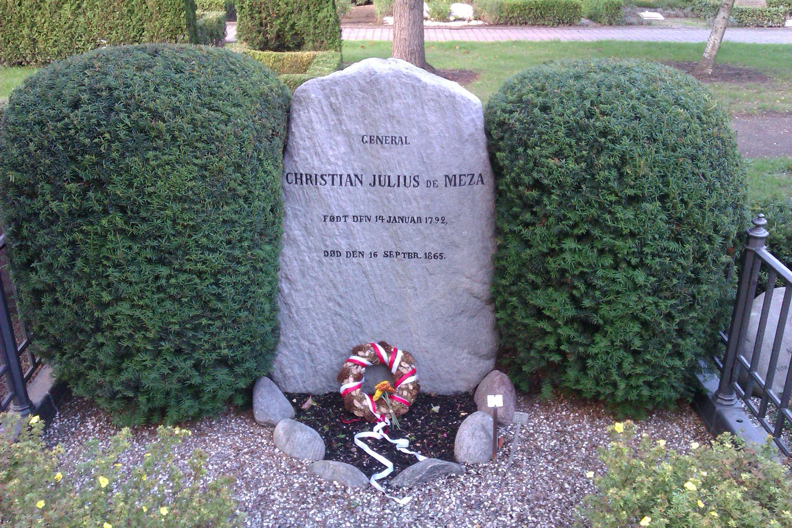 Gravestone belonging to Christian Julius de Meza. Taken on the day he died, over 200 years earlier.